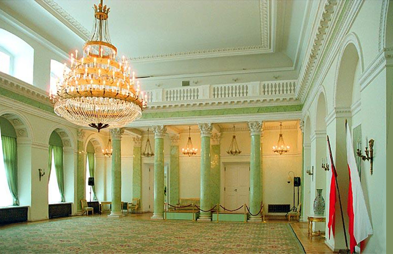 Presidental Palac in Warsaw